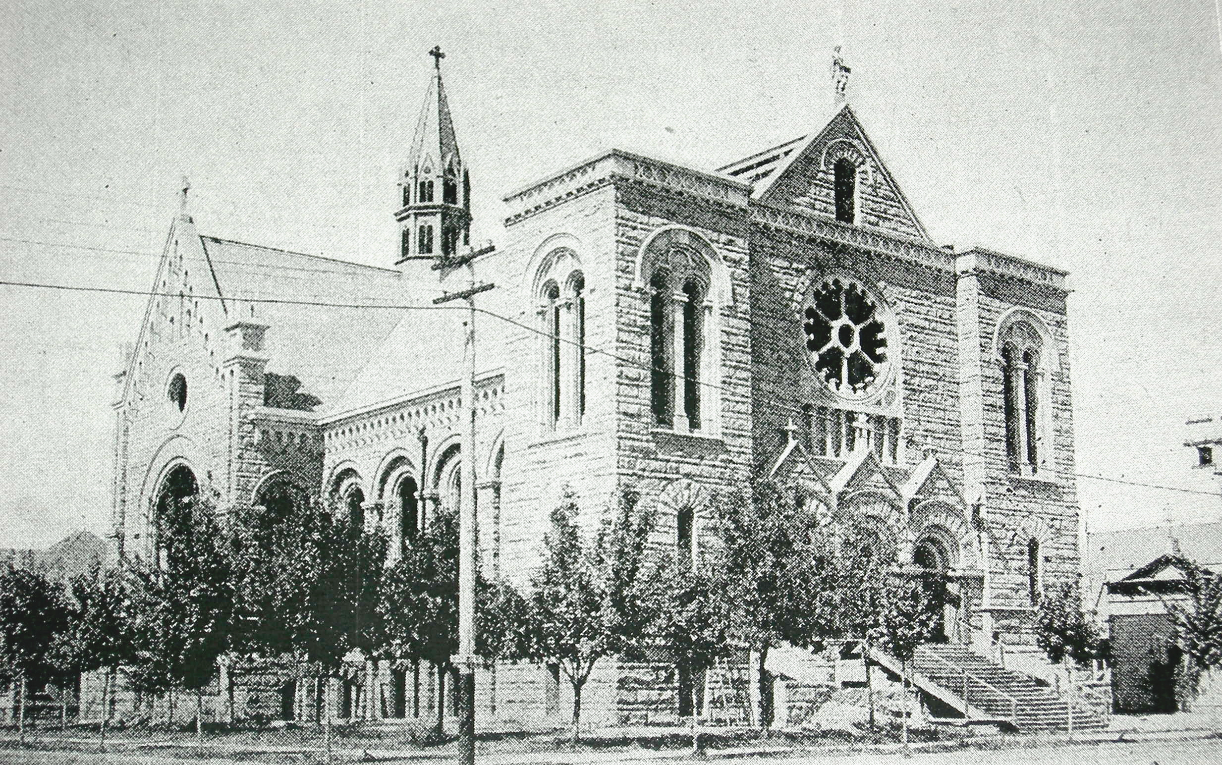 A really dated and older image of St. John's cathedral in Boise, Idaho.